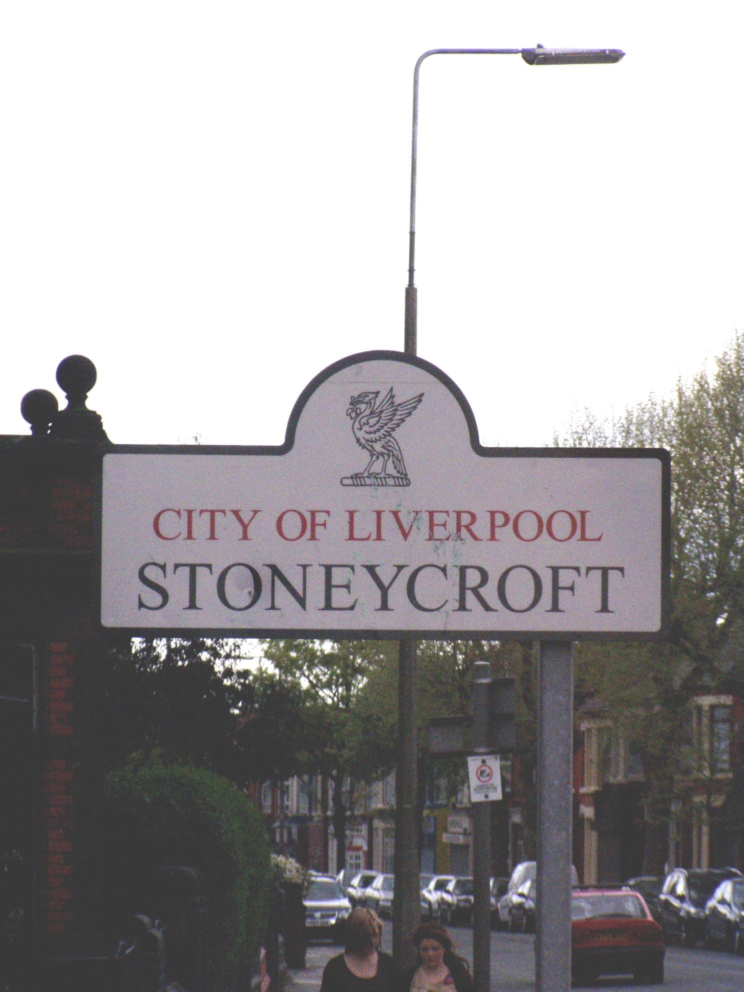 Stoneycroft sign Liverpool. Where is it?